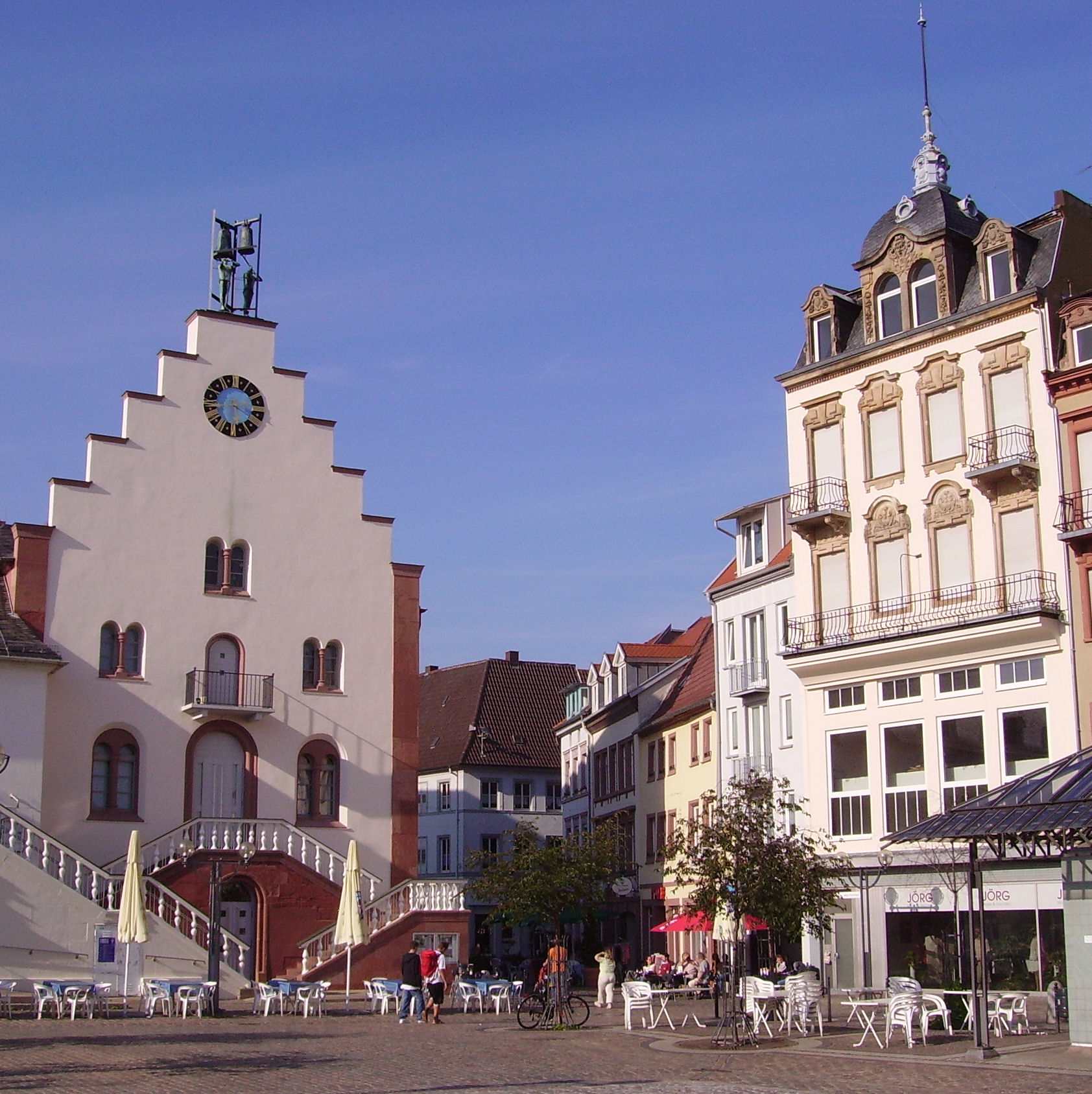 view of Landau (Pfalz), Germany